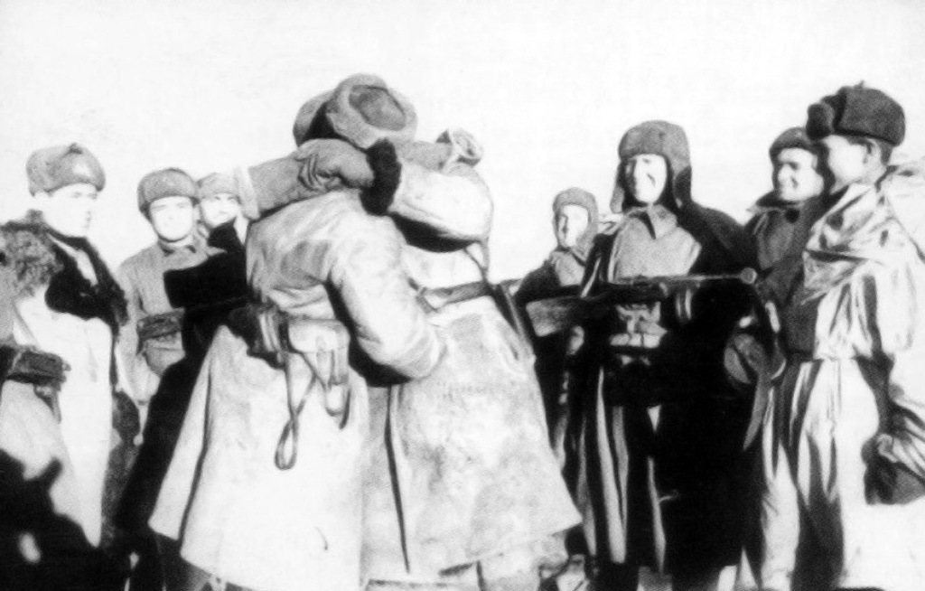 Soldiers of the 21st and 62nd Armies meet on the north-western slopes of the Mamayev Kurgan 26 January 1943